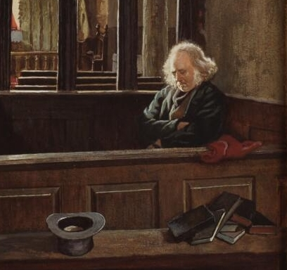 A painting from the Framed Works of Art collection at the National Library of wales.